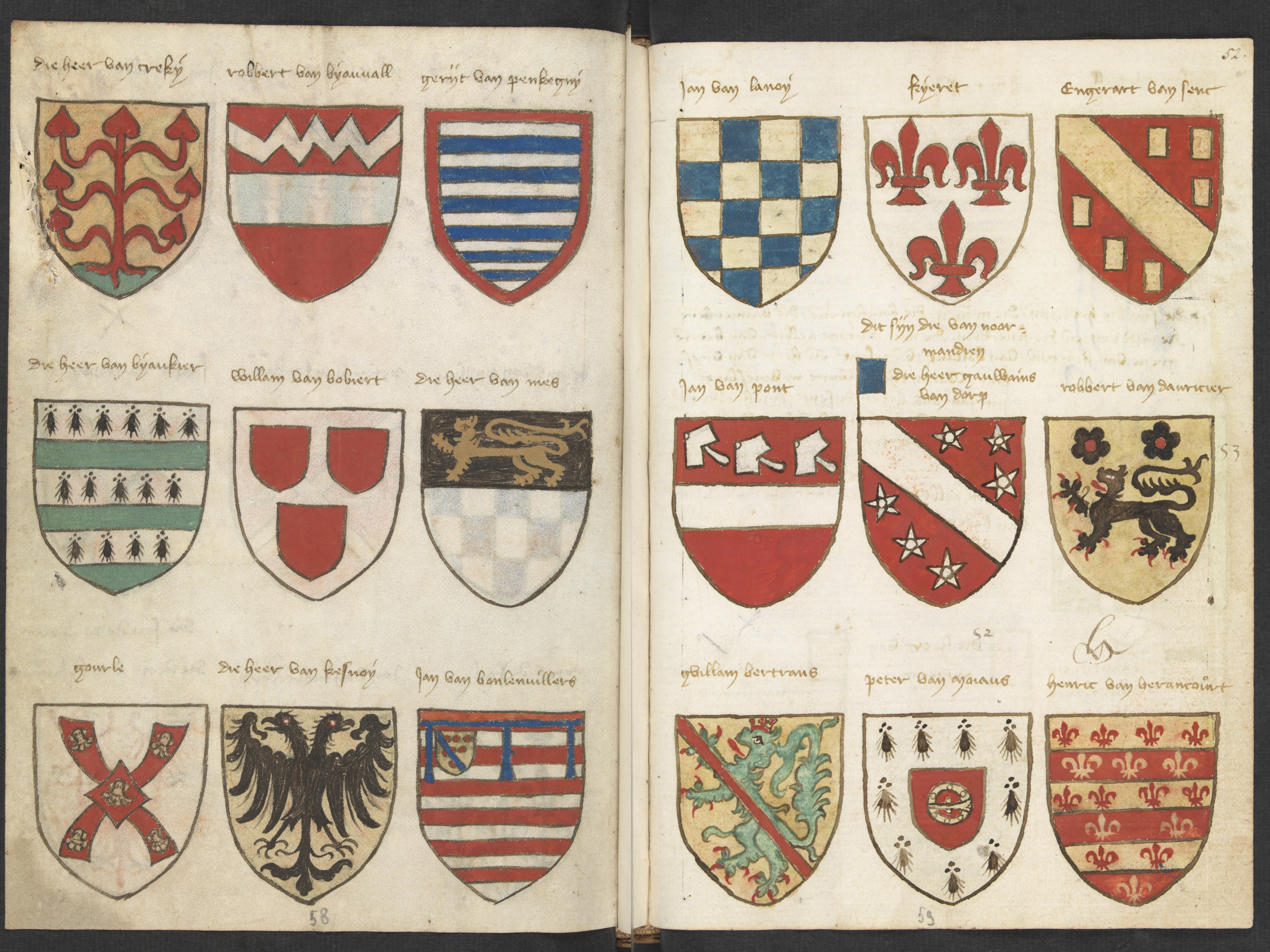 Lefthand side folio 051v; righthand side folio 052r from the Beyeren armorial / Wapenboek Beyeren